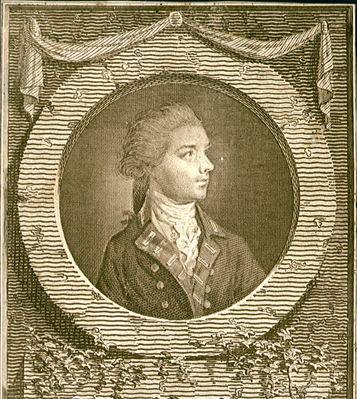 The Honble Captn James Luttrell, half-length oval engraved portrait of Captain James Luttrell (c. 1751-1788) in captain's uniform. Luttrell commanded HMS Mediator at the Action of 12 December 1782, and was a member of parliament.